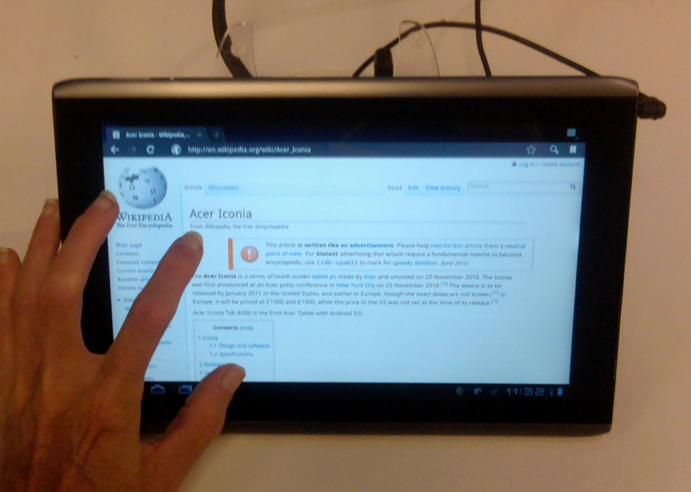 Acer Iconia Tab A500 at Best Buy showing its own Wikipedia article.